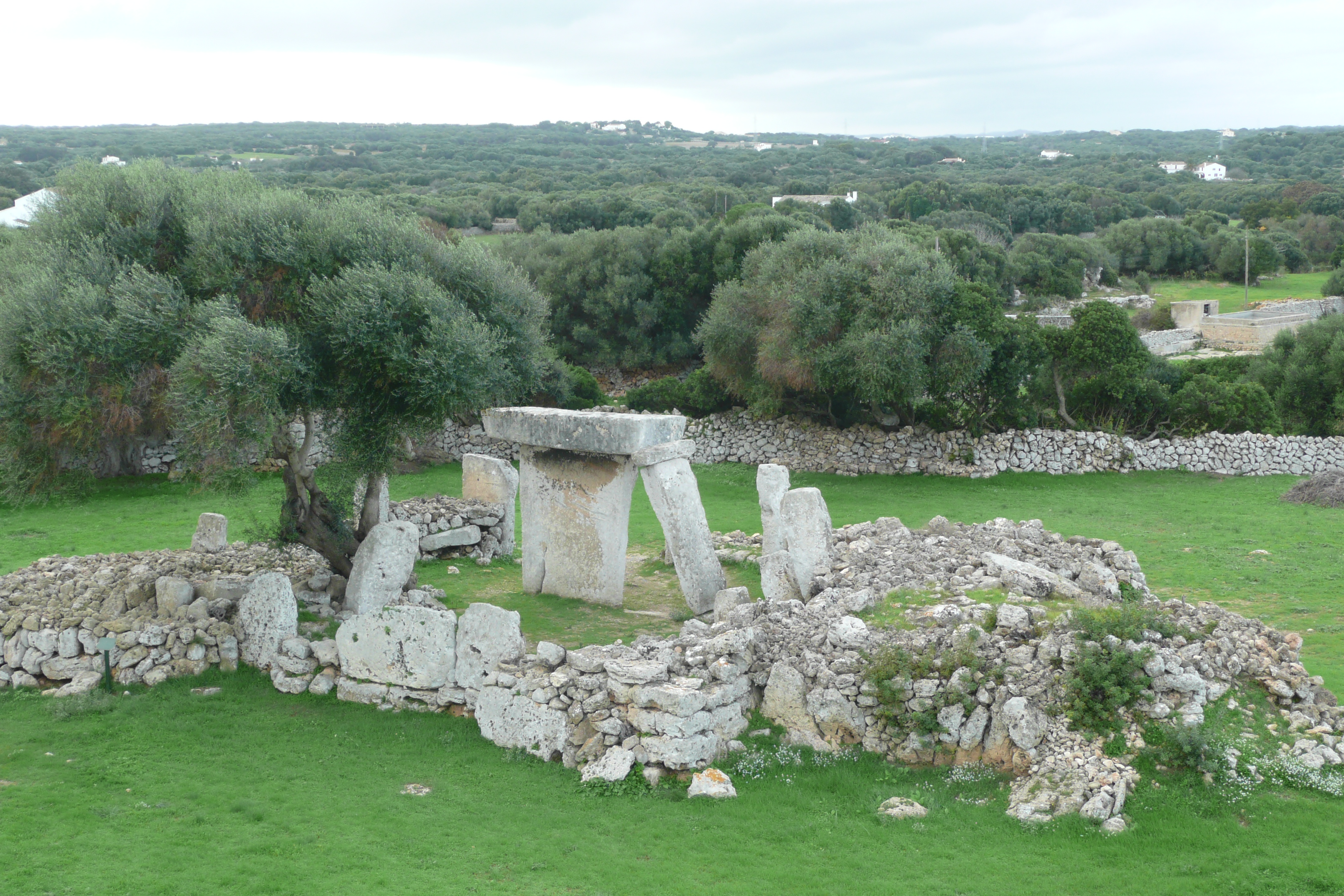 Talatí de Dalt archaeological site, Minorca, Spain